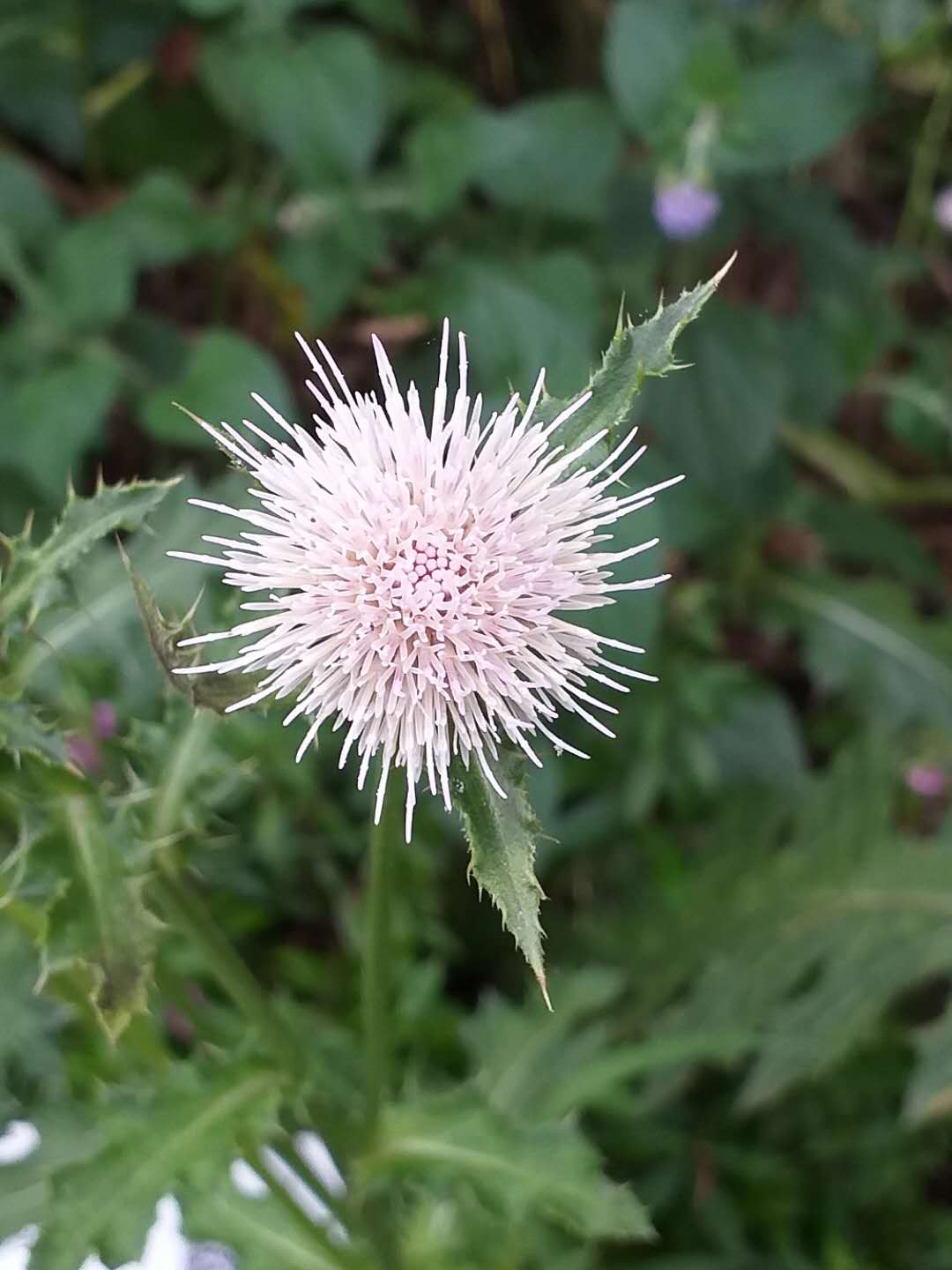 Cirsium japonicum var. takaoense, native of Taiwan. 2018 Taichung World Flora Exposition, Taiwan. .